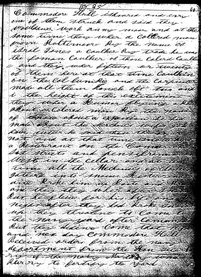 Commodore Hull ishsared[issued] and evry one of them struck and said they wouldnt work anny moore and at the same time they wher collered man from Baltirmoore by the name of isral Jones a caulker by Trade he was the foman Caulker of those Colerded Caulkers and they wher fifteen or twenty of them here at that time Caulkin on the Col lumbia and the Carpinters made all of them knock oft two them and i the height of this excitement they were a Rumor flying around about a colered man by the name of Snow about a expression he had made about the Mechanics wifes god kowes wether he said those things or not and at that time snow kept a Restaurant on the Corner of six street and pennsilvanian west in the cellar and at the time all the Mechanics of classes gathered into snows Restaurant and broke him up Root and Branch and they were after snow but he flew for his life and that night after they had broke snow up they threatened to come to the navy yard after commodore Hull